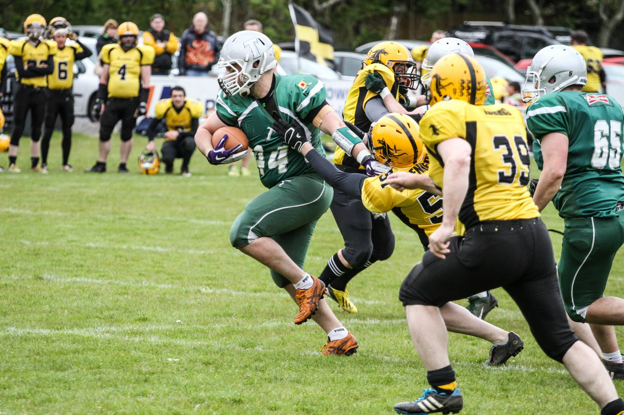 Neil "Pocket" Montgomery's power running batters the Carrickfergus Knights